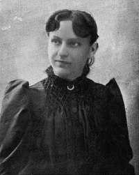 Blanca Consin de Selaya, President Zelaya's wife (Nicaragua)